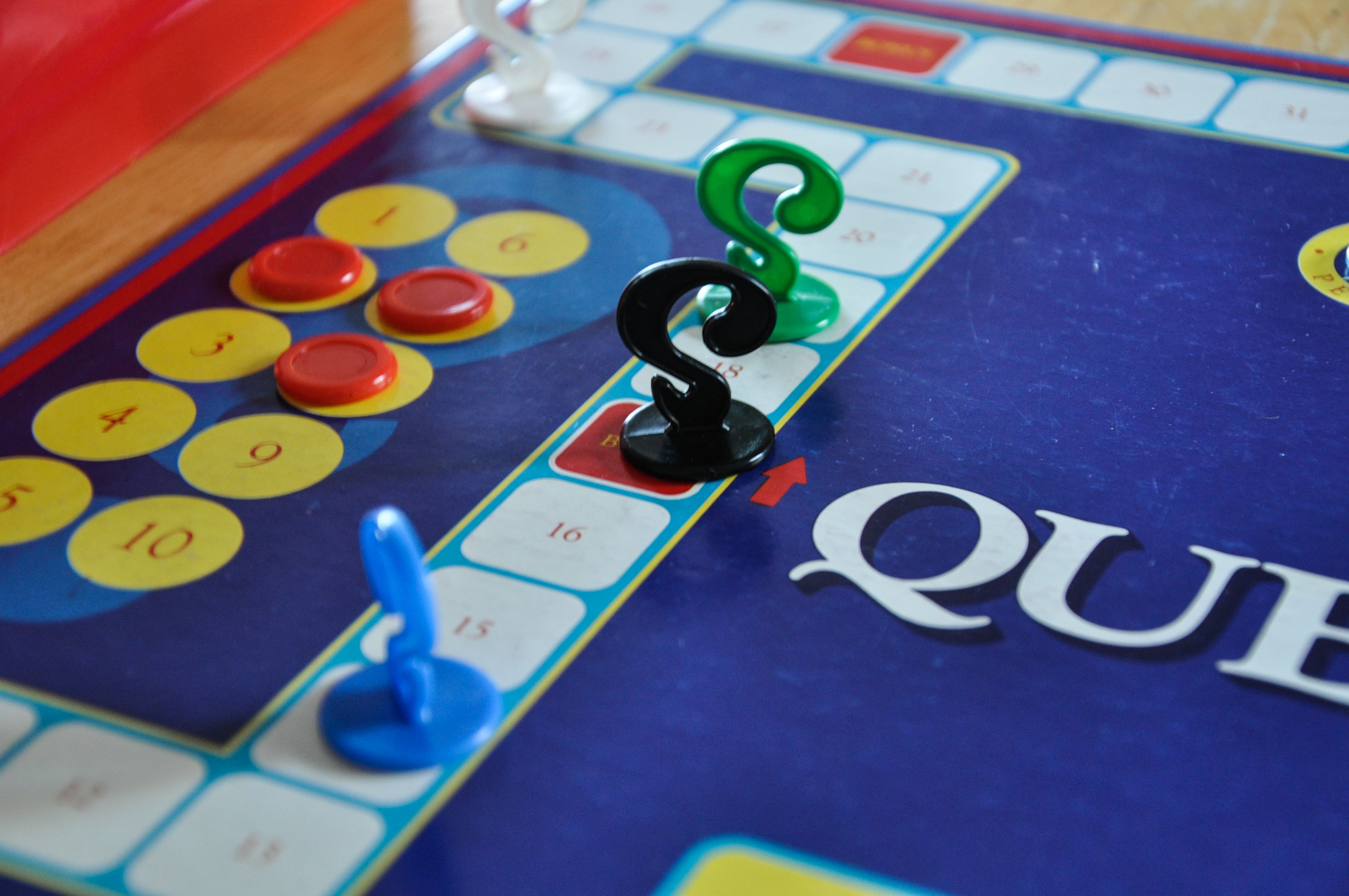 matrials of the board game 20 Questions